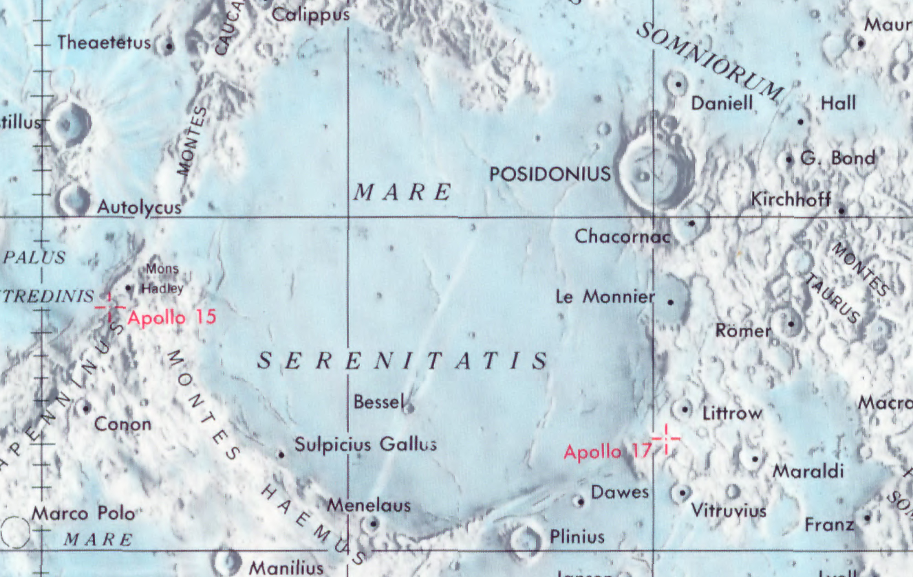 Location of the landing site on the moon of Apollo 17 et Apollo 15